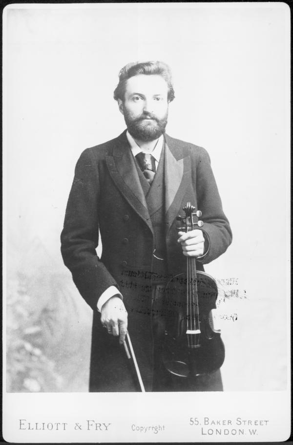 German violinist Willy Hess (1859 – 1939)